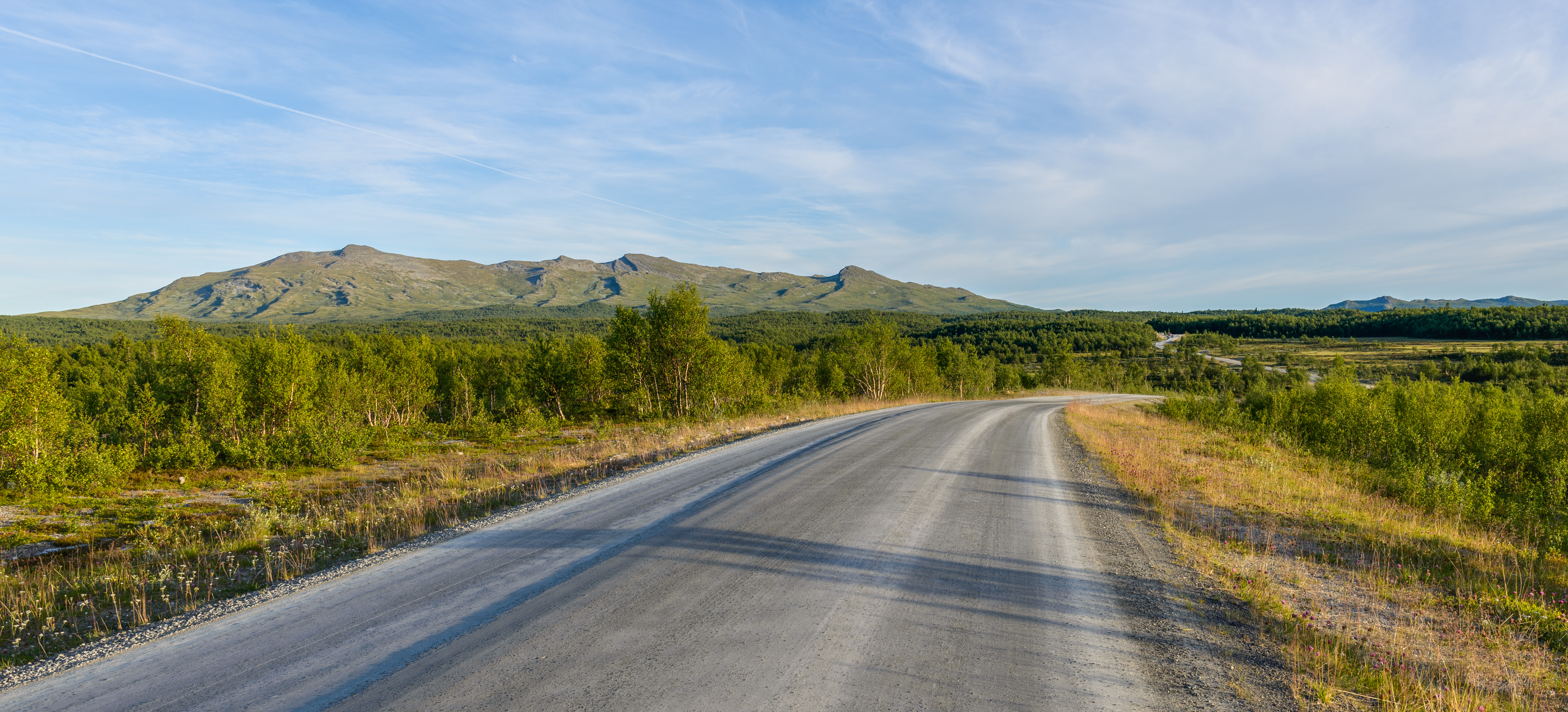 Swedish public road Z 531 (Flatruet Road, or Flatruetvägen) between Mittådalen and Funäsdalen, Härjedalen Municipality, Jämtland County. In the background the mountain Anåfjället.